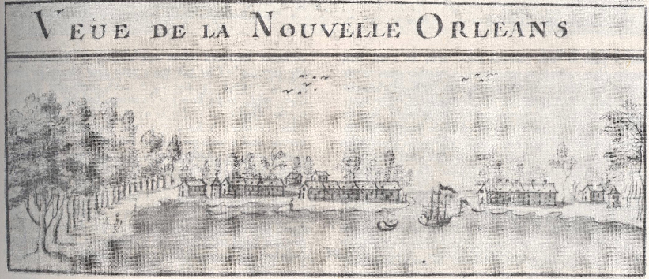 Earliest published depiction of New Orleans, 1720, appeared as an ornament in a French map. Clearly it is not a depiction of the young city on the Mississippi River (compare Image:NouvelleOrleans1726LassusA.jpg from 6 years later); it may actually show the early French settlement at the mouth of Bayou St. John (now within the city, but at the time over 2 miles distant from it).